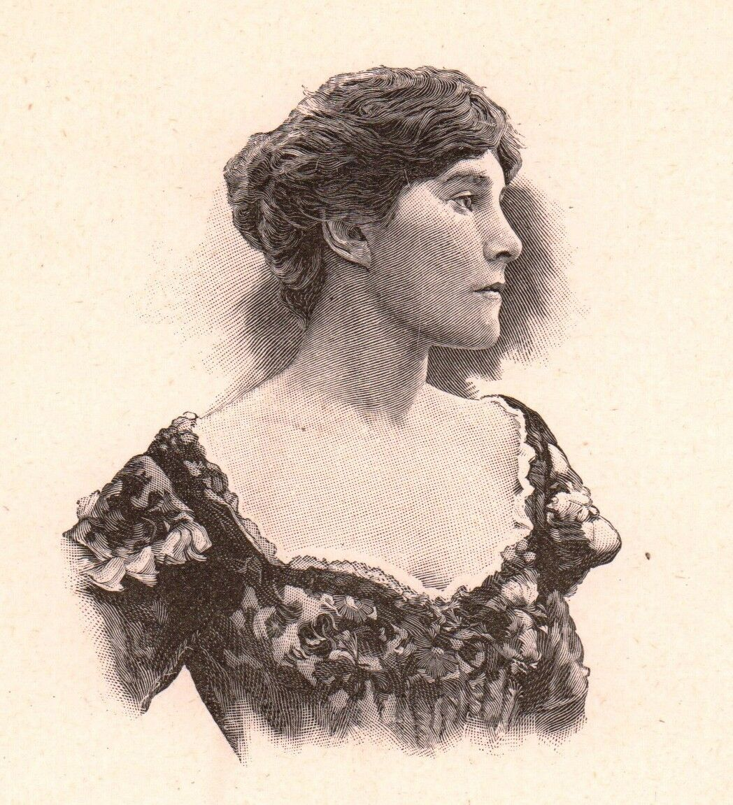 Suzanne Desprès, actress